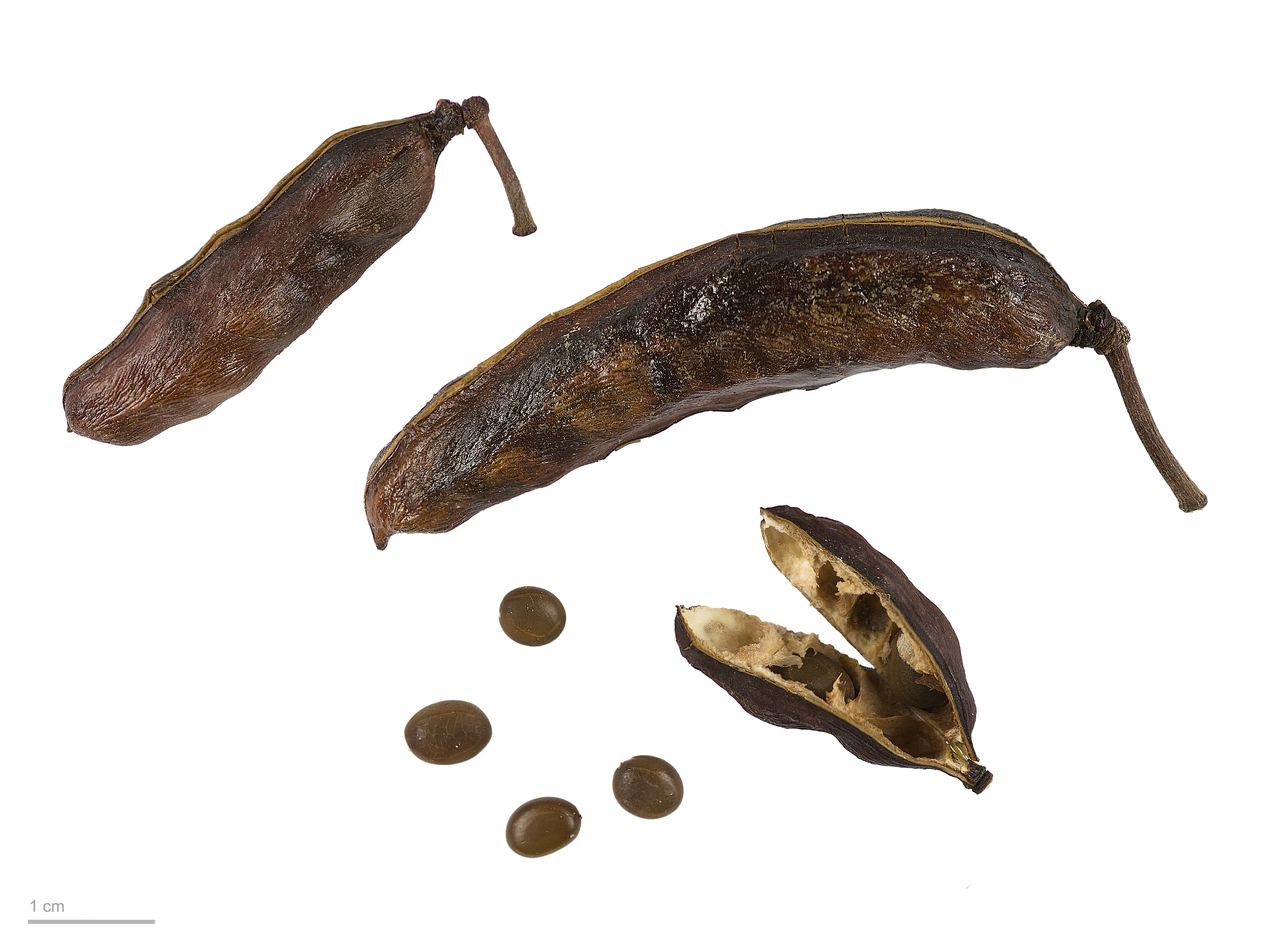 Acacia farnesiana, needle bush, fruits and seeds